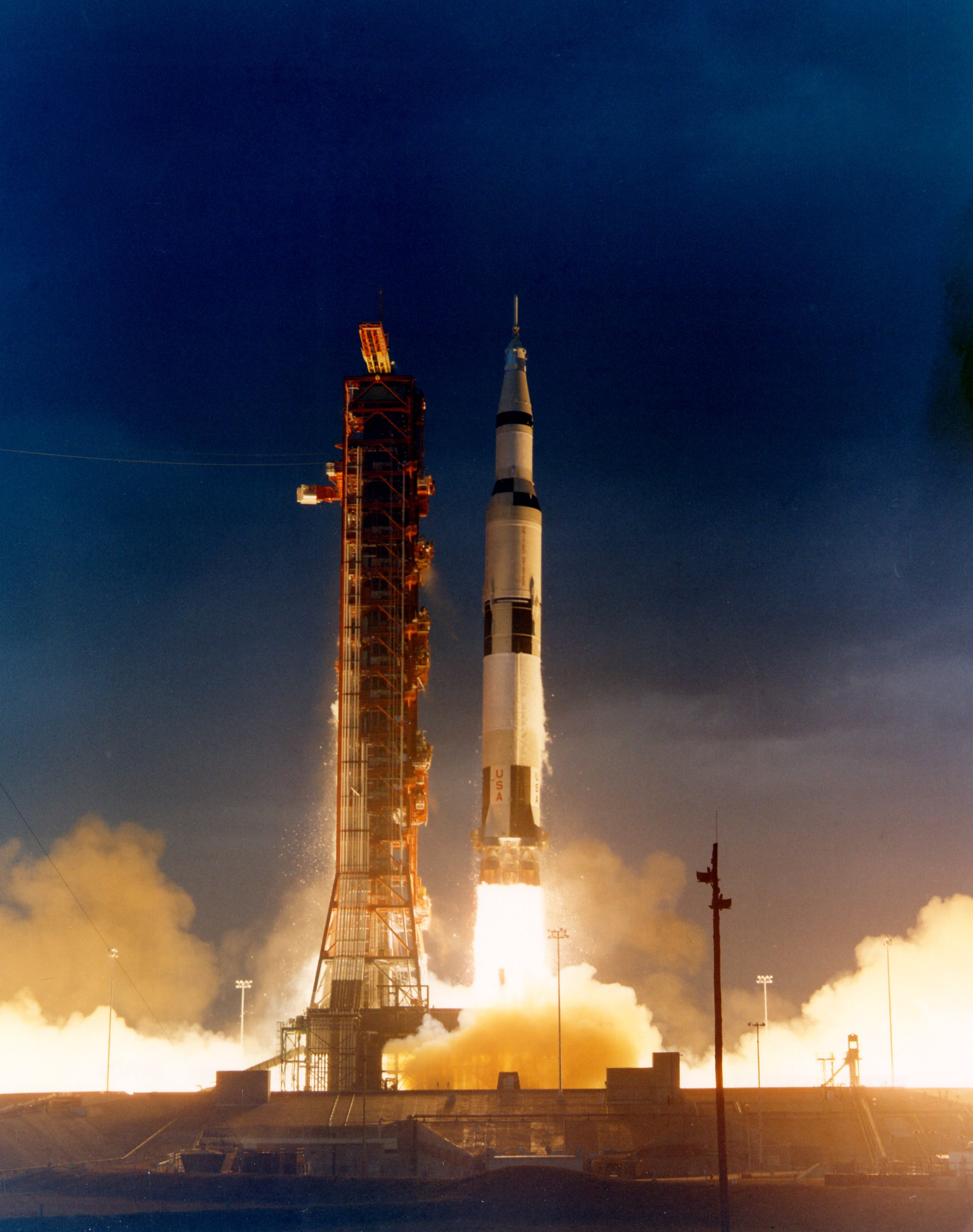 Apollo 14 Saturn V climbs. 31 January 1971.